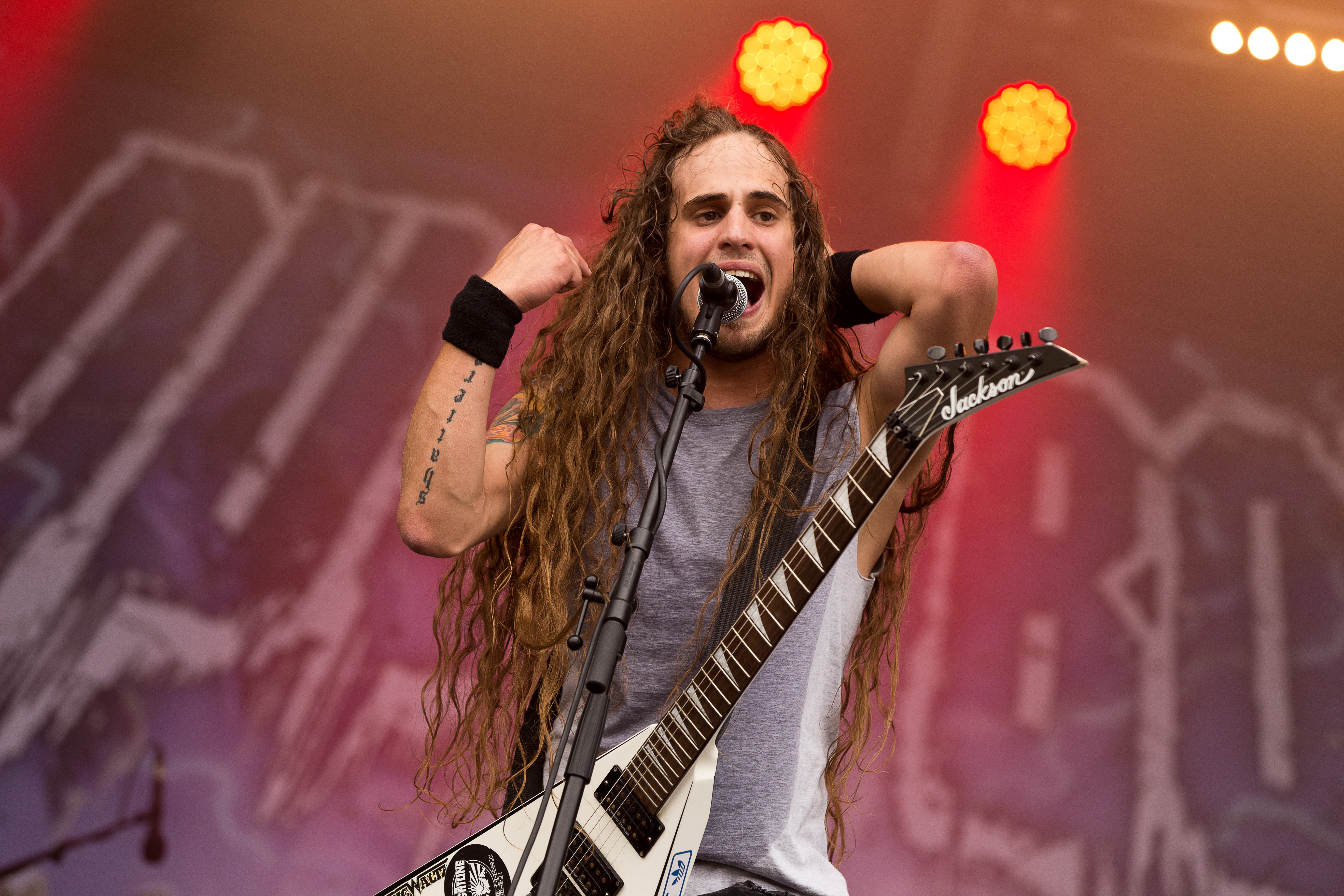 The German thrash metal band Dust Bolt at the Rockharz Open Air 2016 in Ballenstedt/Germany.